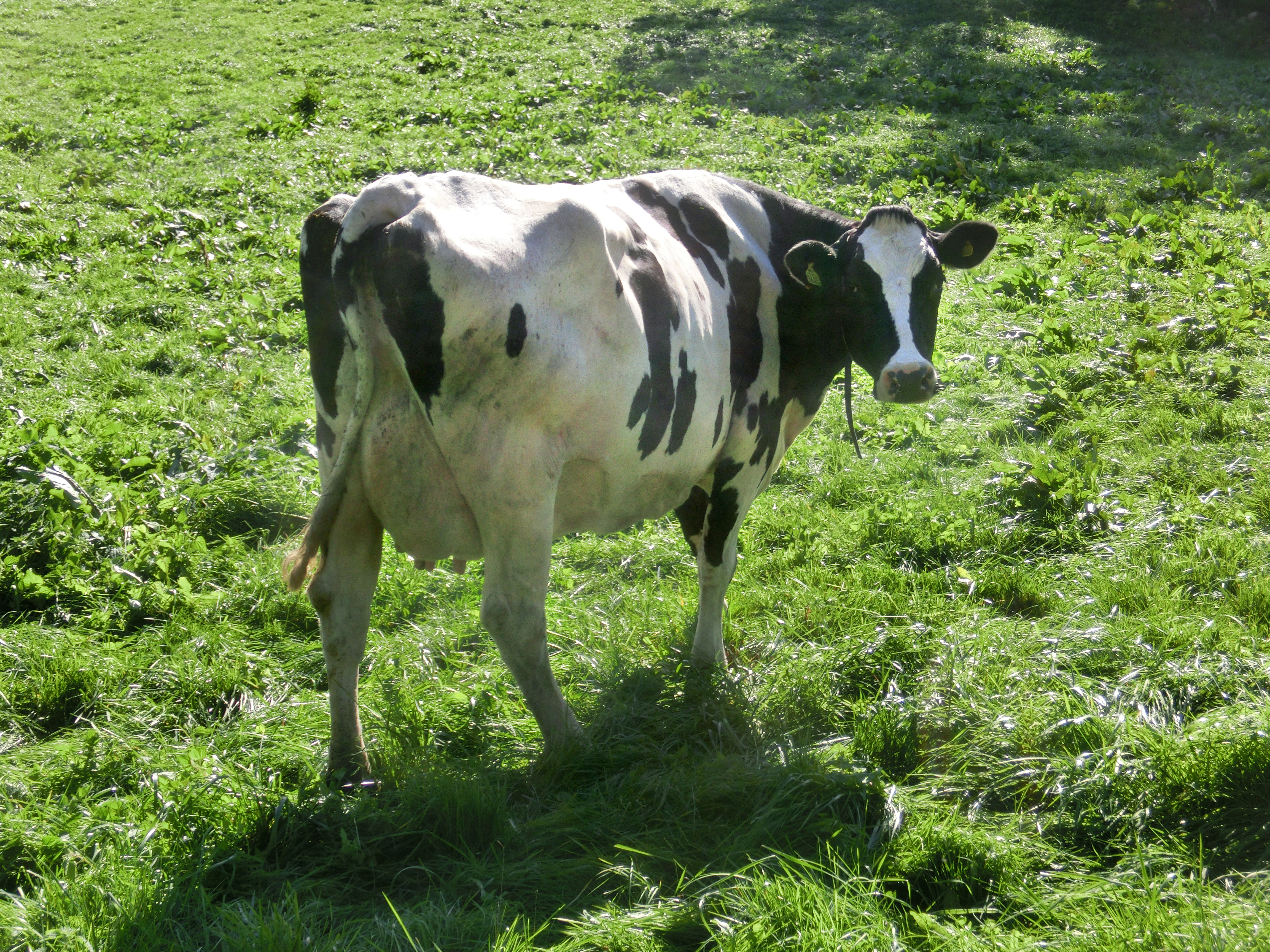 Swedish Friesian posing like Lulubelle III on the cover of the album Atom Heart Mother by Pink Floyd.